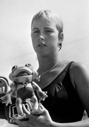 Anne Warner (swimmer) at the Rome Olympics